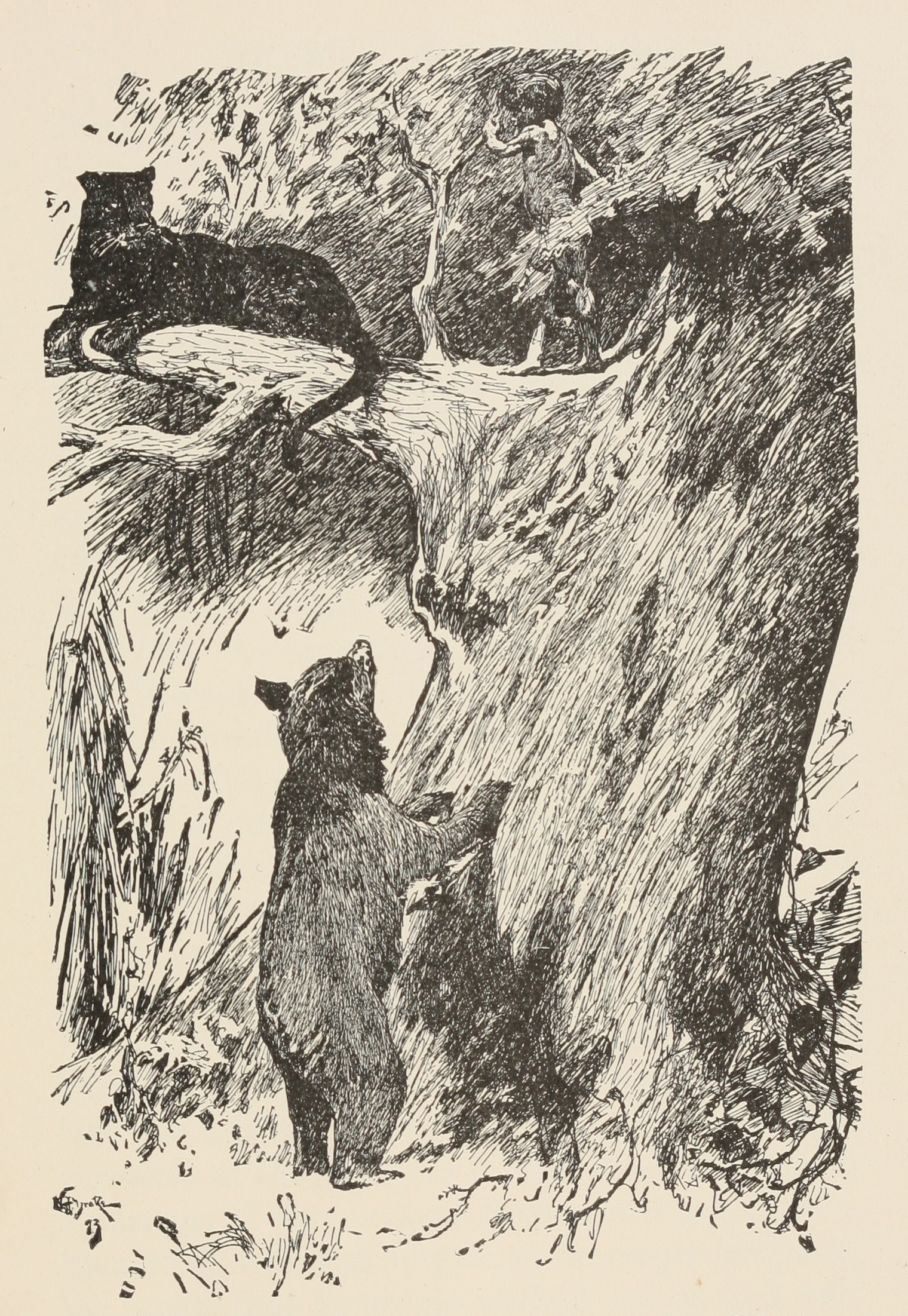 "Bagheera would lie out on a branch and call, 'Come along, Little Brother'."